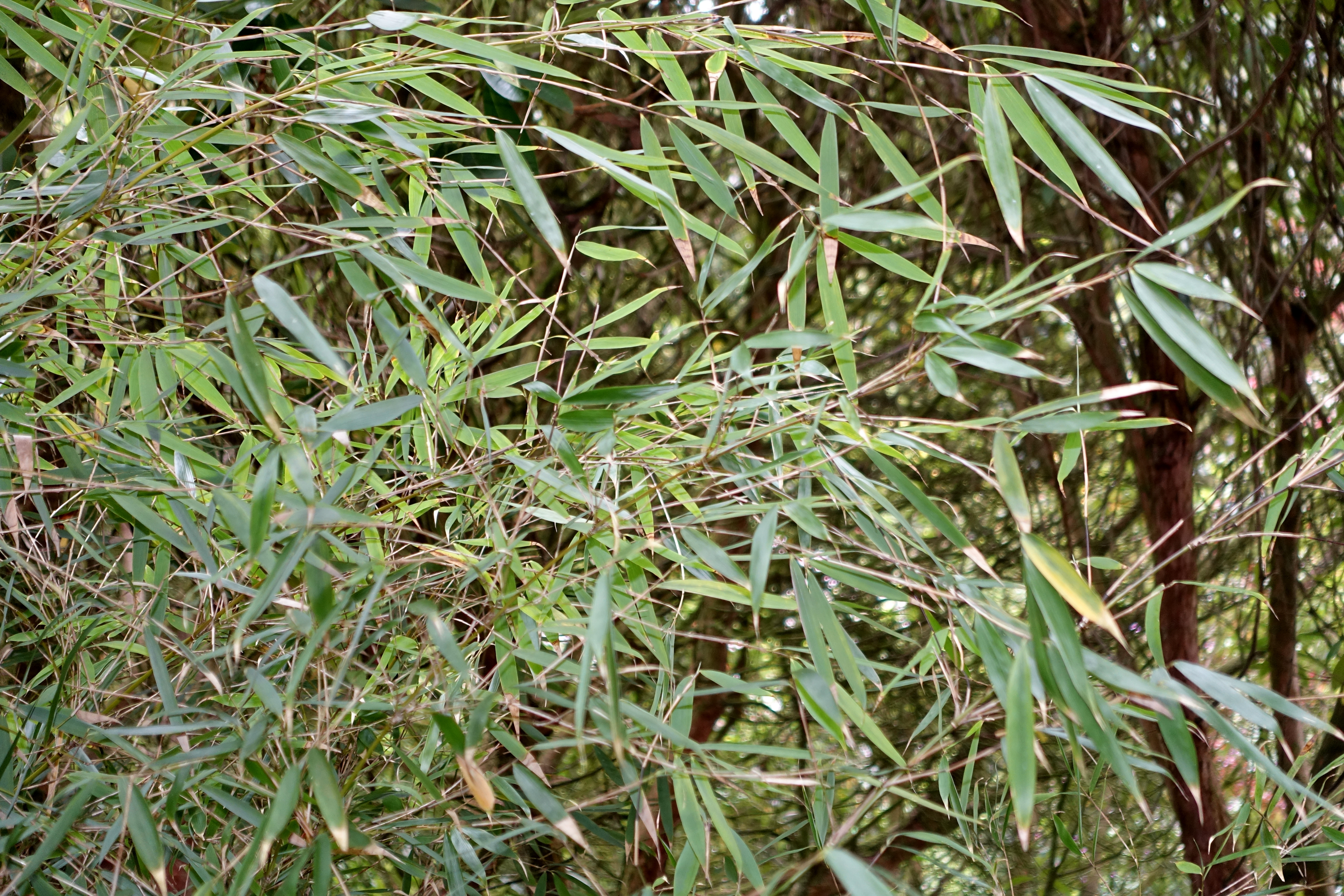 Horticultural specimen in Trebah Garden - Cornwall, England.